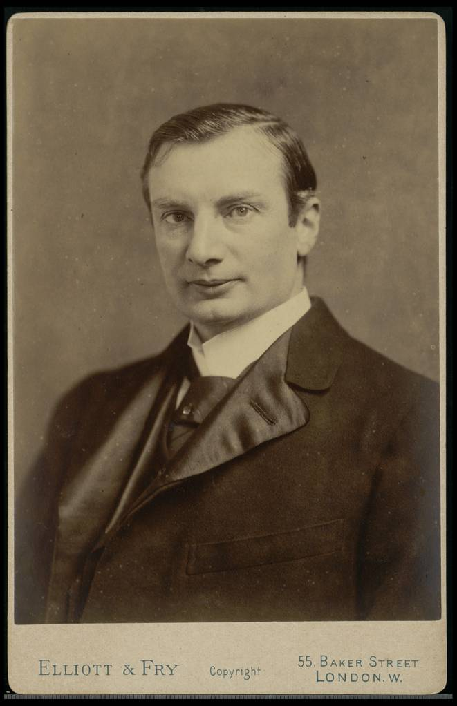 Picture of Waldemar Mordecai Wolff Haffkine